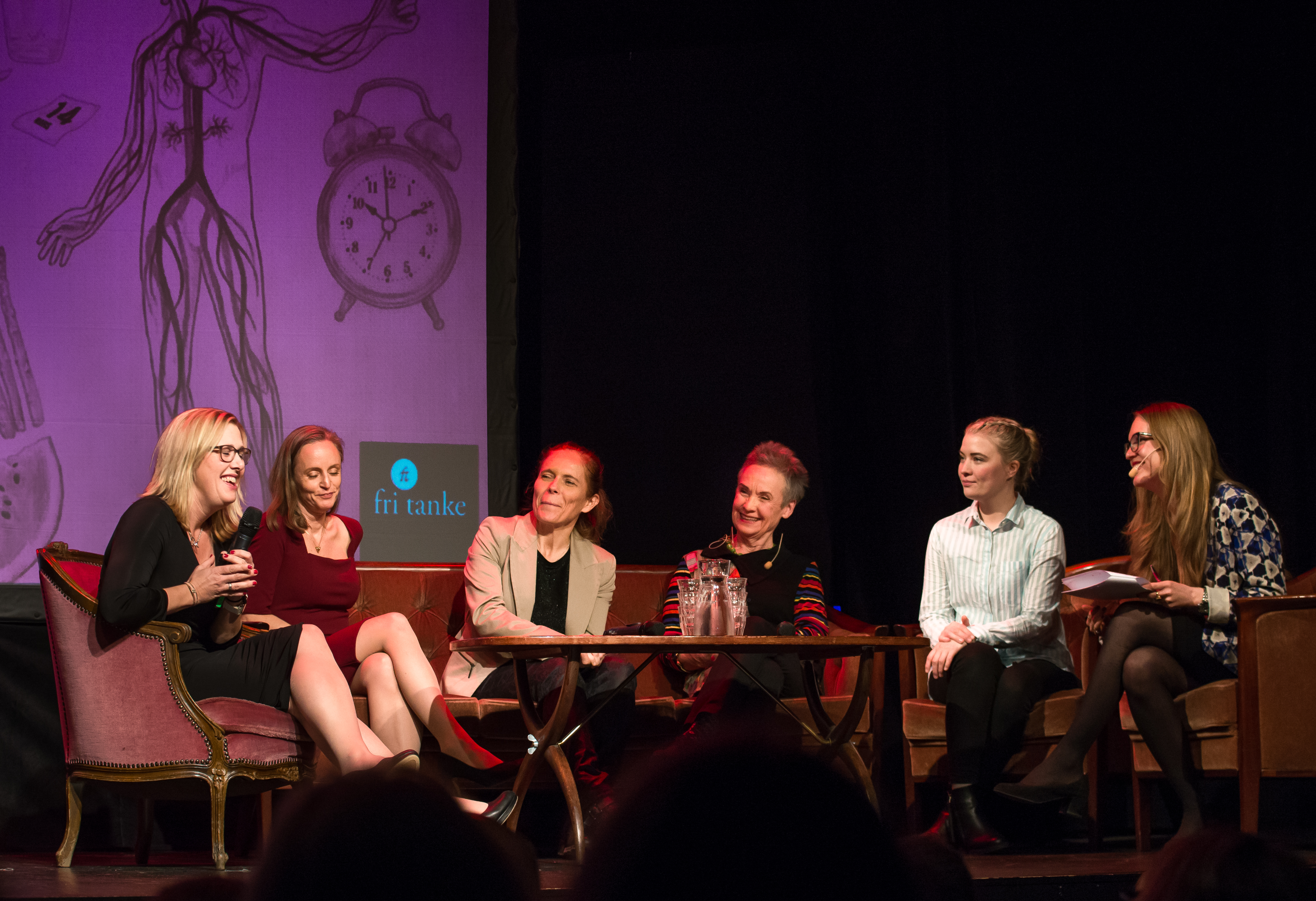 Fri Tanke- (Free Thought-) seminar "Healthy without cheating - health in a scientific way" at the Scalateatern in Stockholm, November 26, 2019. Participants from left: Jessica Norrbom, molecular biologist from Stockholm University, Maria Ahlsén, biochemist from Stockholm University, Katarina Woxnerud, legitimate naprapat, Åsa Nilsonne, professor of psychiatry, Mia Fernando, physiotherapist and moderator Martina Stenström, publishing manager at Fri Tanke.